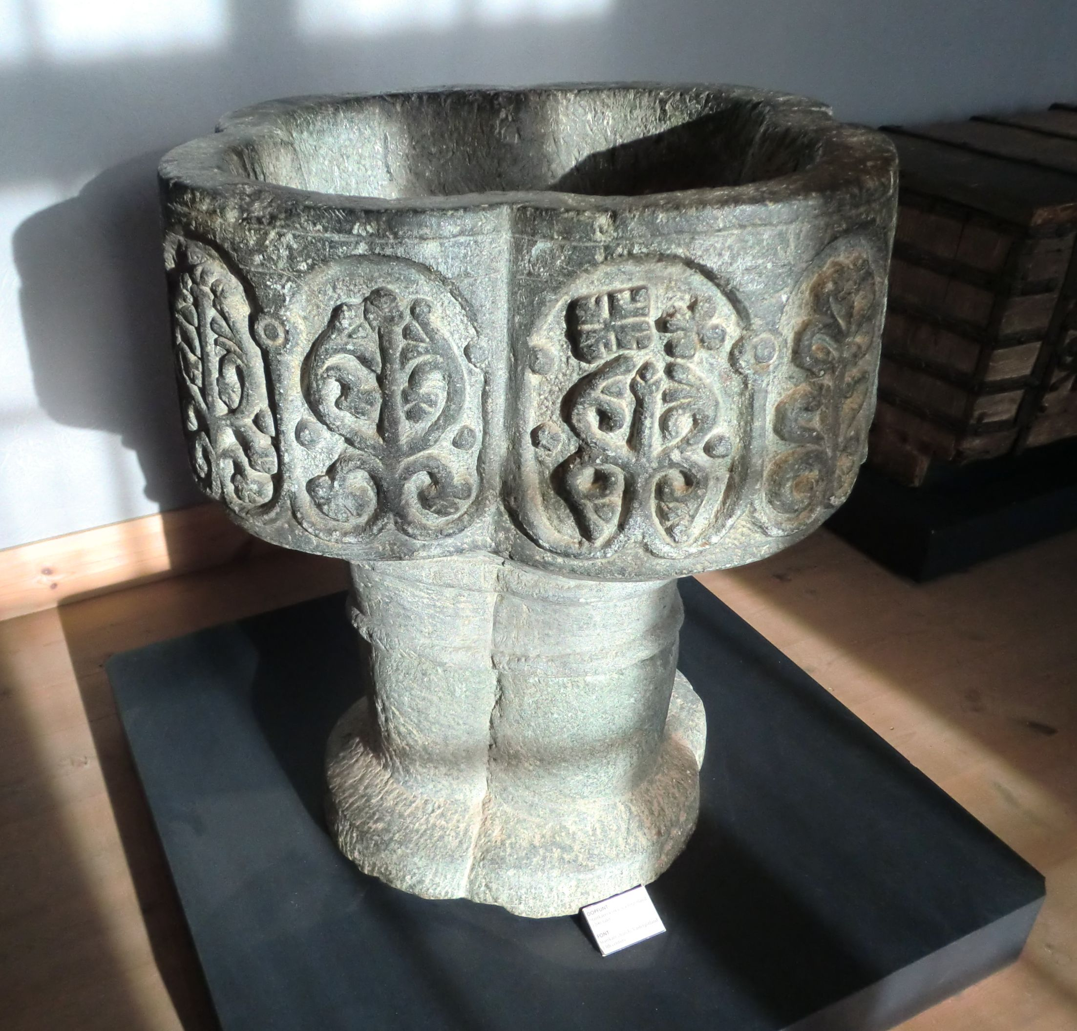 A 13th century babtismal font from Starrkärr parish church, Västergötland, Sweden. On display at the National Historical Museum's Medieval Ecclesiastical Art exhibition in Stockholm.